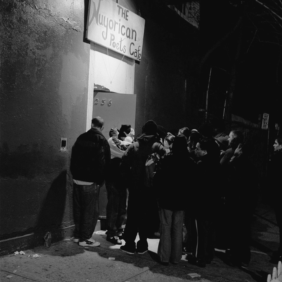 Nuyorican Poets Cafe NYC 1998